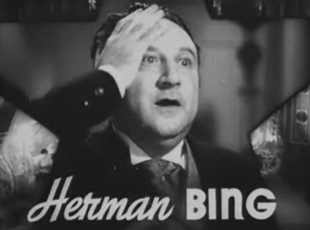 Cropped screenshot of Herman Bing from the trailer for The Great Ziegfeld